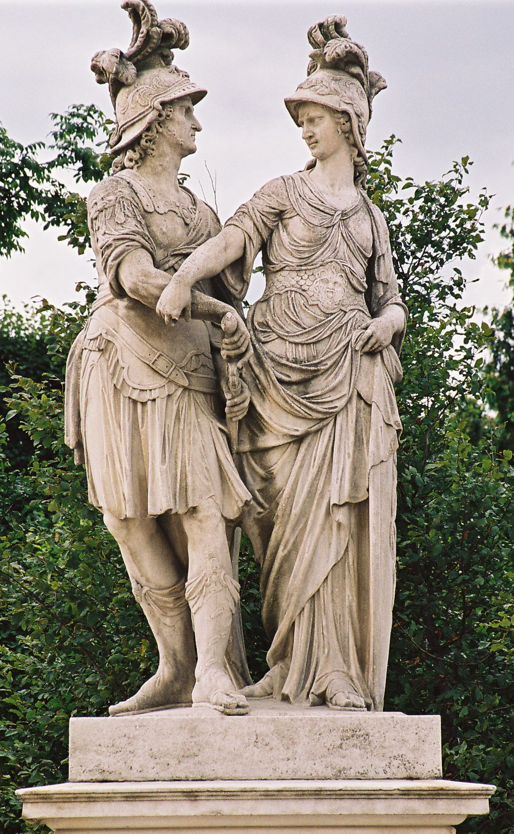 Vienna, Schönbrunn gardens, statue Mars and Minerva